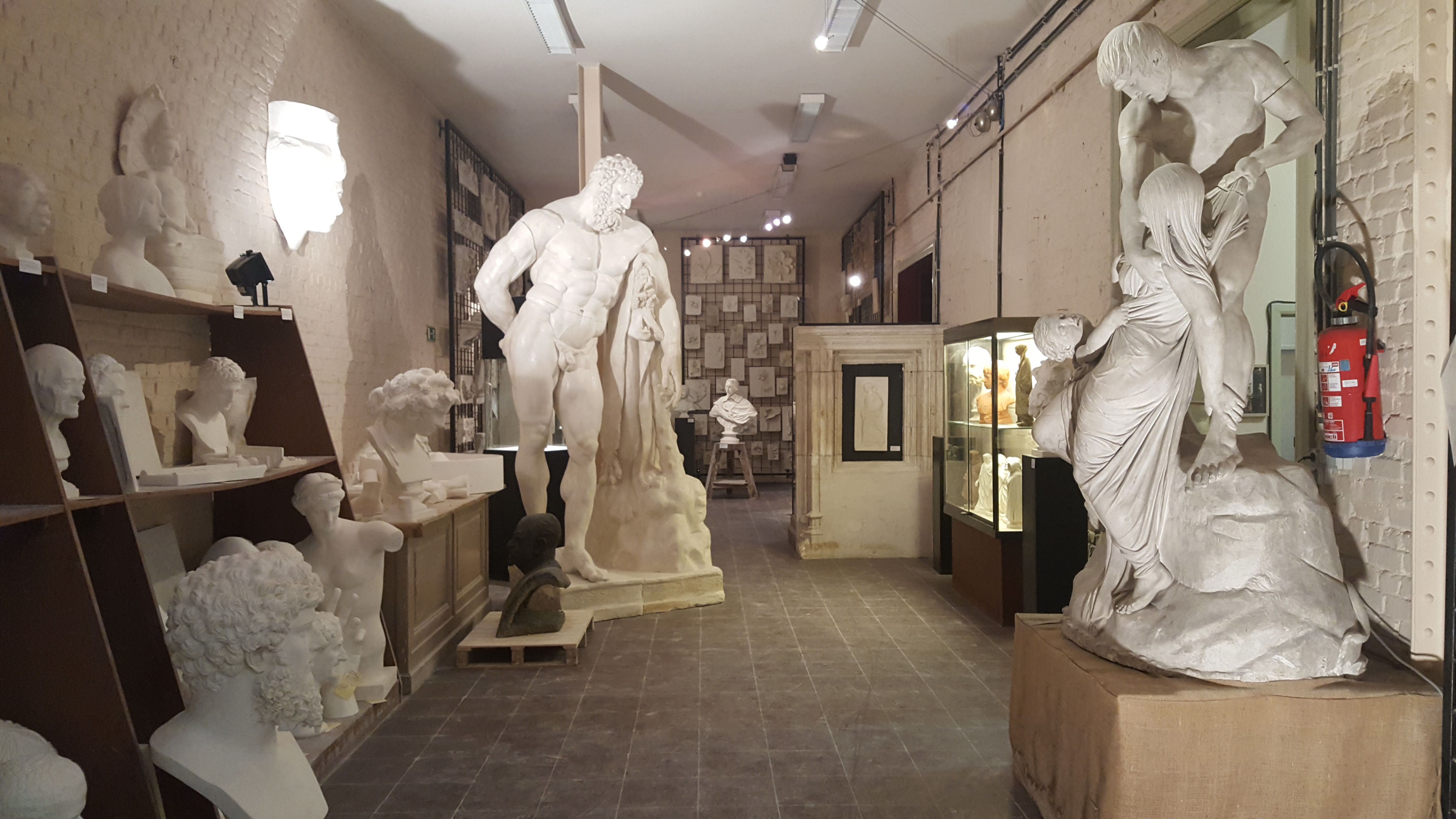 photography session in Atelier de moulage of Musée du Cinquantenaire, during Wiki Loves Art, Brussels, Belgium